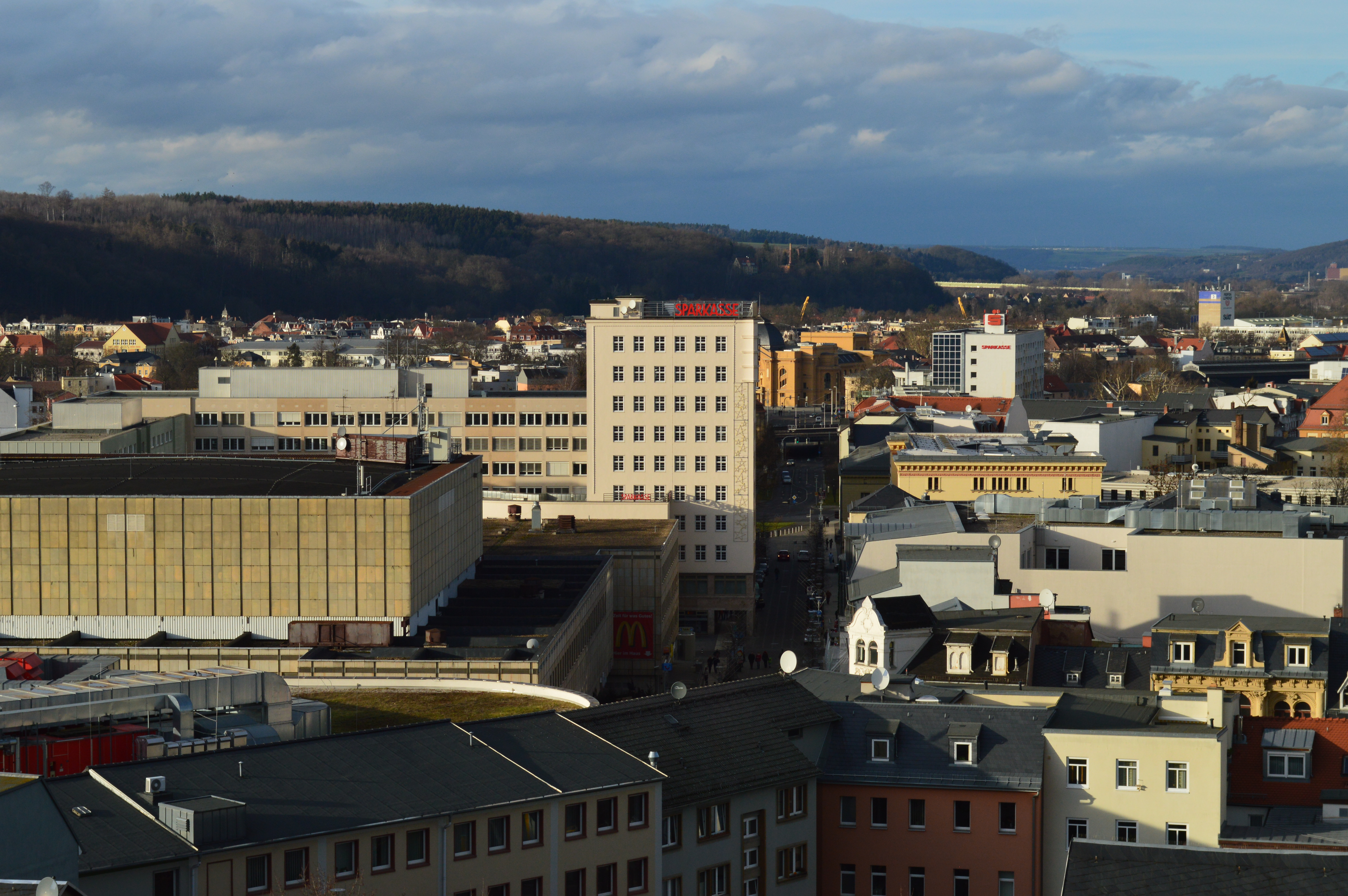 View from the city hall tower in Gera, Germany, in December 2013: View towards Handelshof at Schloßstraße